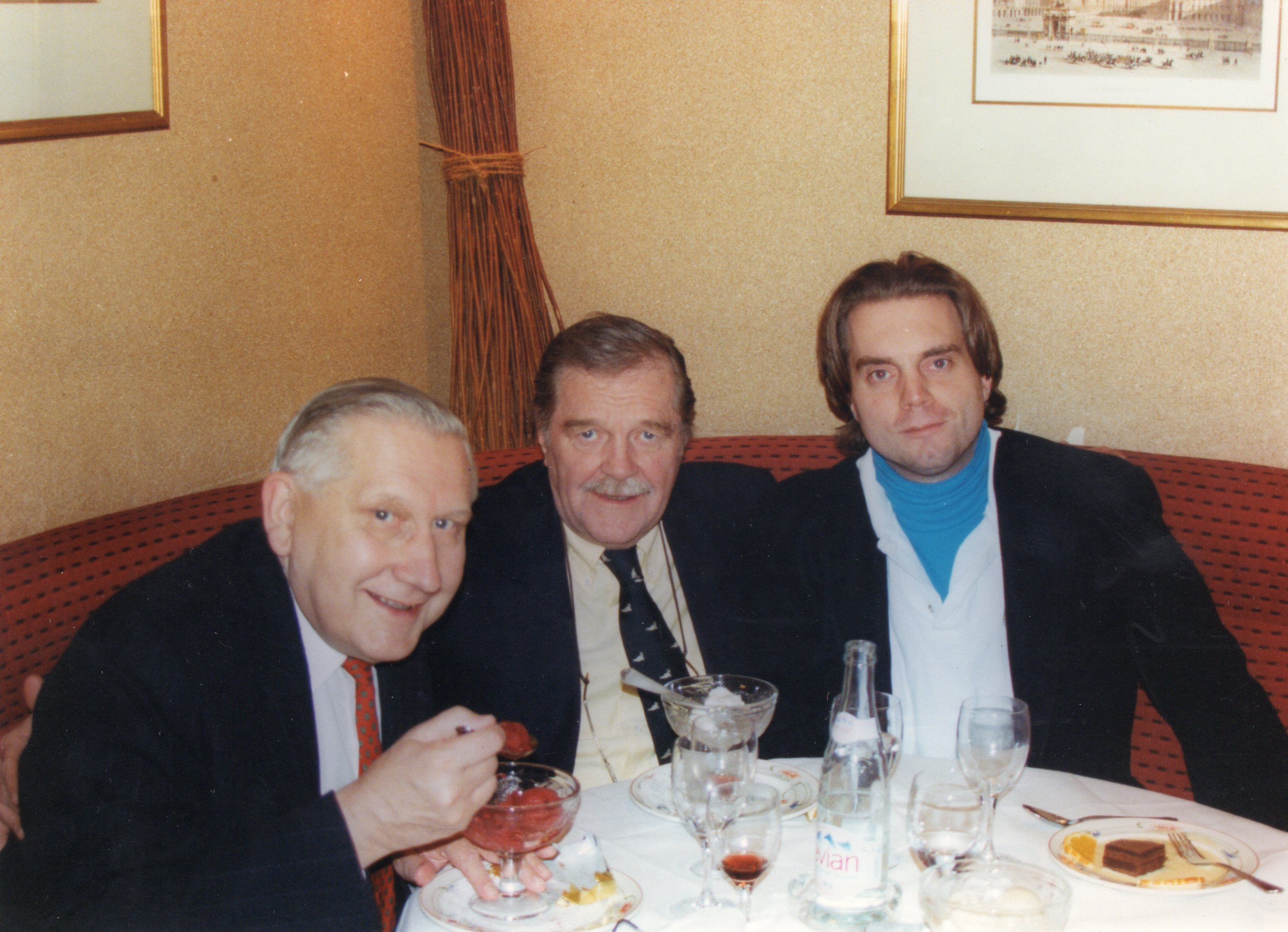 Business Meeting in Paris, France. I was attempting to place a picture for the page of Roy M Furmark, who was born on September 28, 1931 - January 4, 2001. He was an Iran Contra Affair 'Whistle blower'. In this picture, he is in the middle between a business associate and his son. This picture was taken in March 1998, in Paris, France.